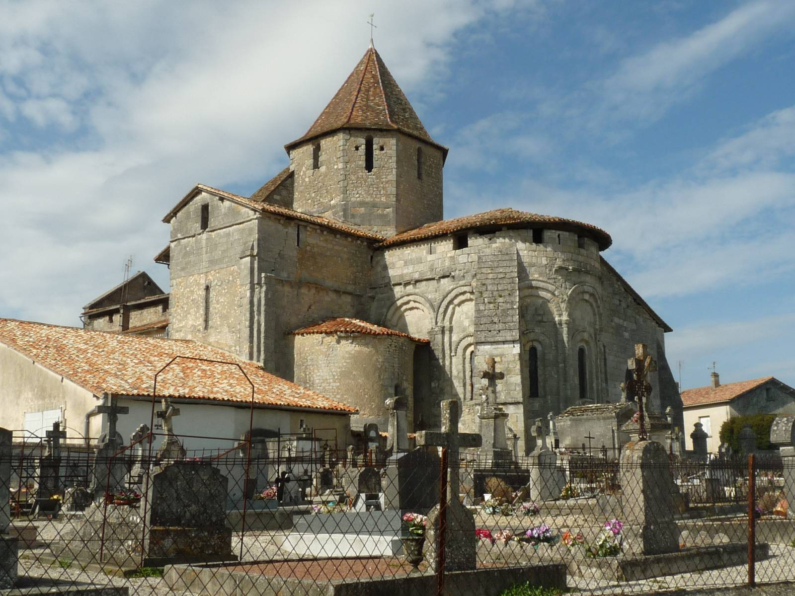 fortified church